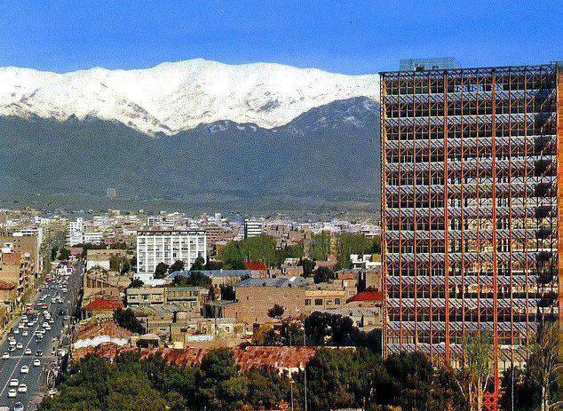 Plasco building-Tehran-1961